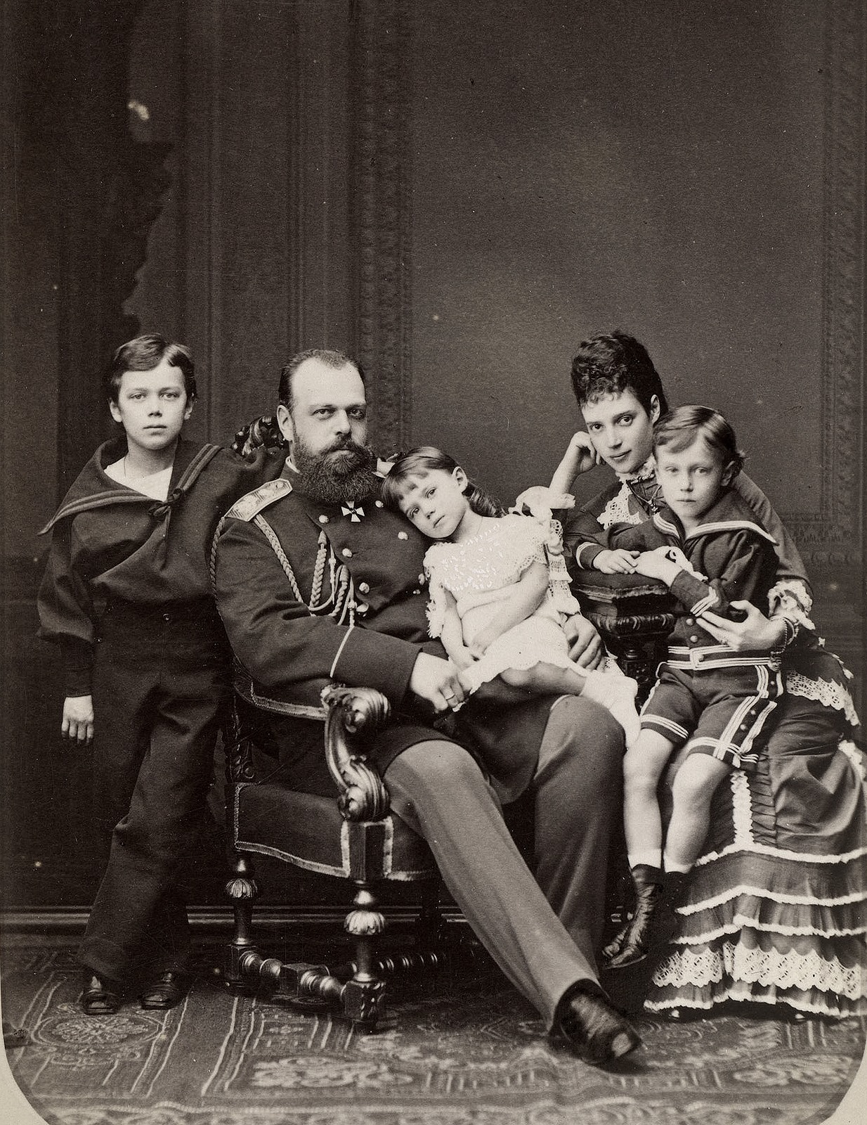 Emperor Alexander III with his wife and children.